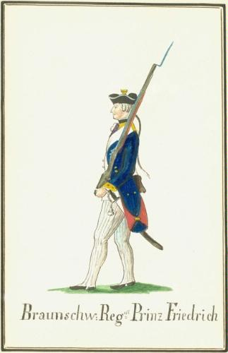 Watercolor of a Soldier from a regiment in the Brunswick Corps during the American Revolutionary War